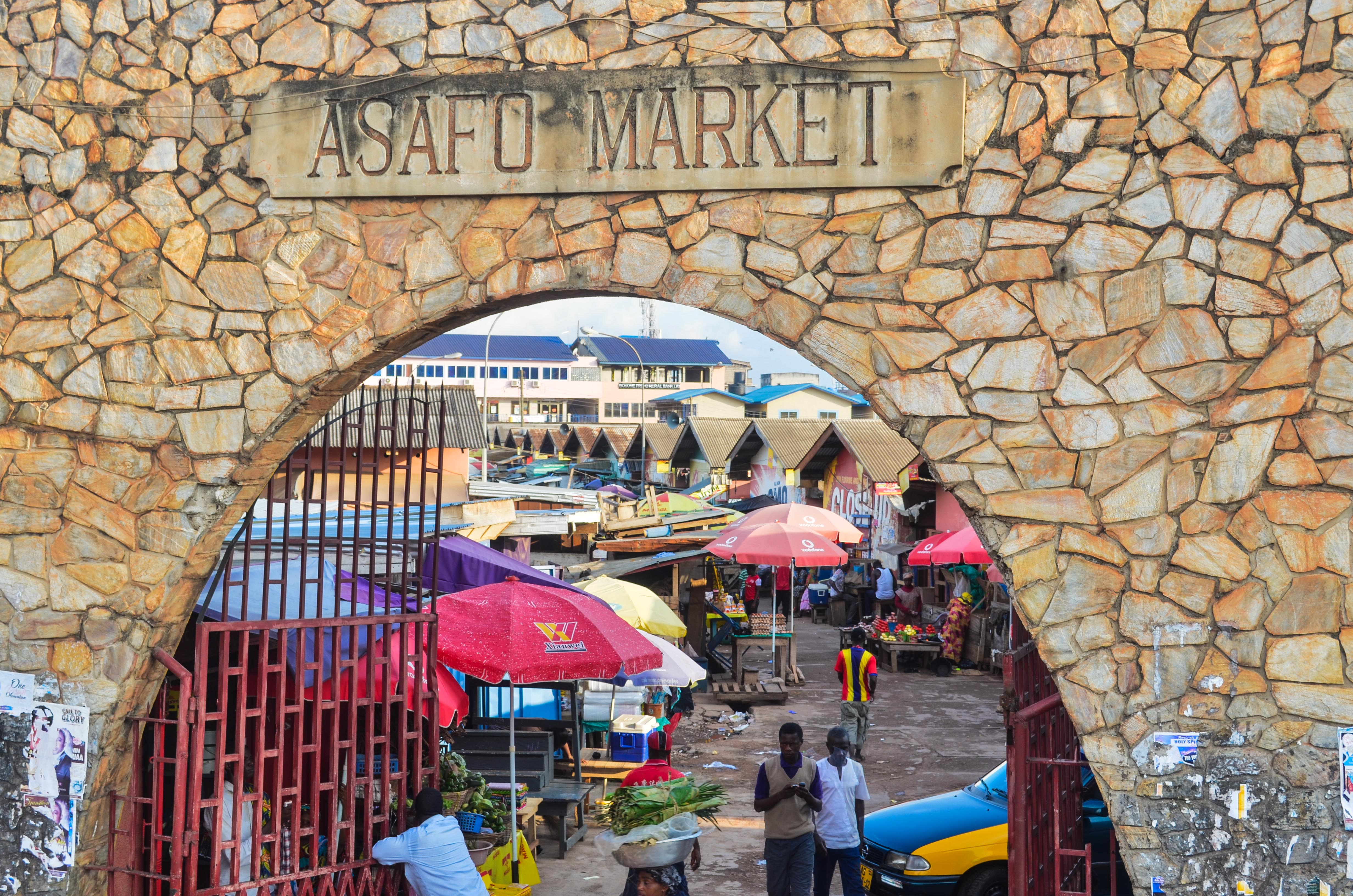 Asafo Marketplace entrance in Kumasi, Ashanti Region, Ghana.